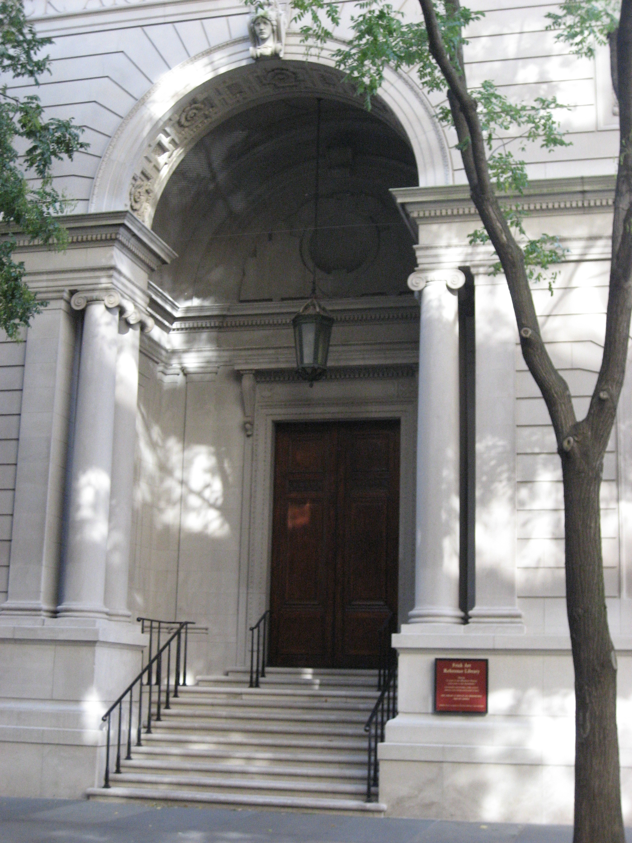 Frick Art Reference Library in New York City